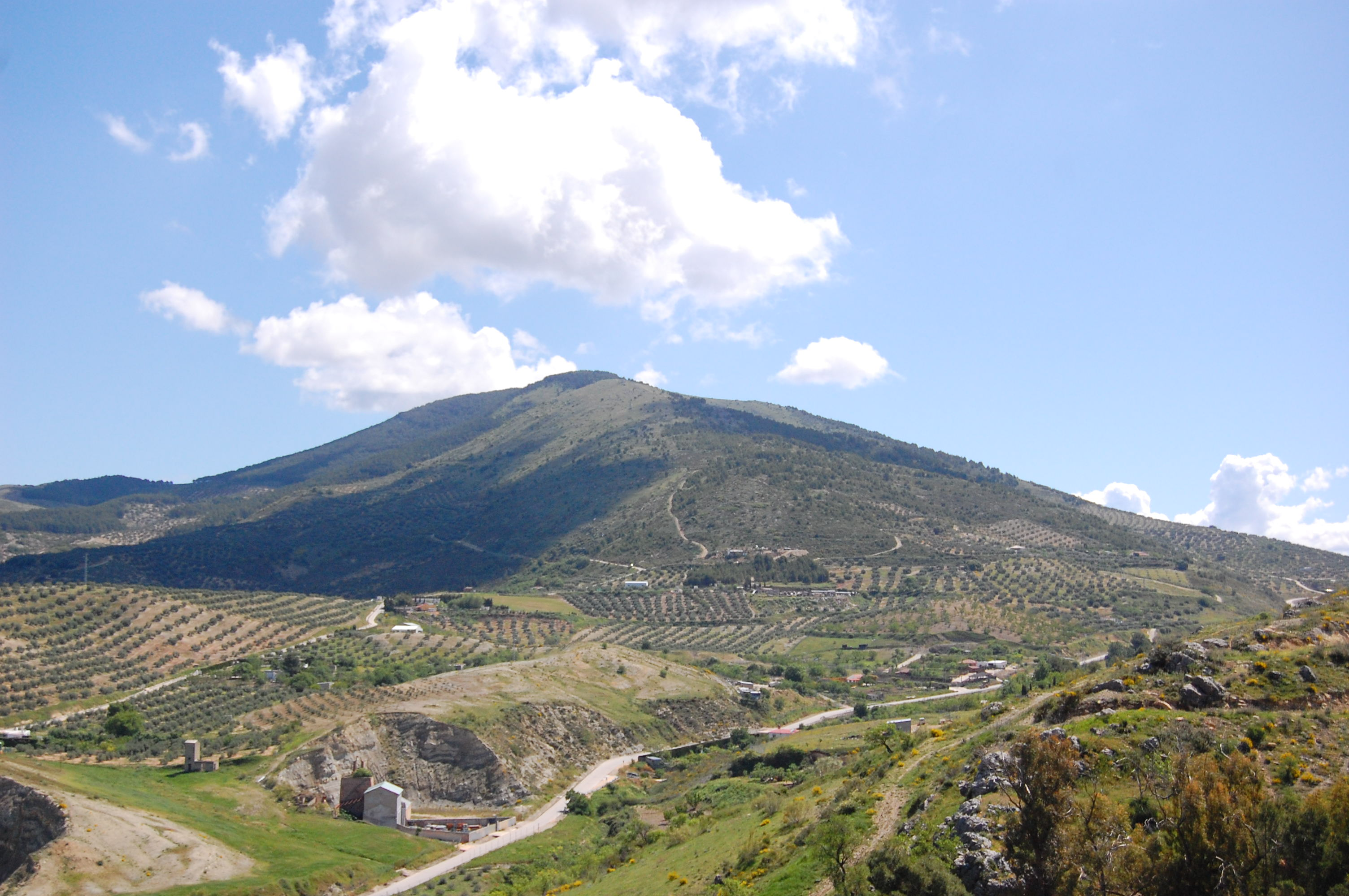 Panoramic view of the Martos countryside from the rock with the Grana mountain in the background.